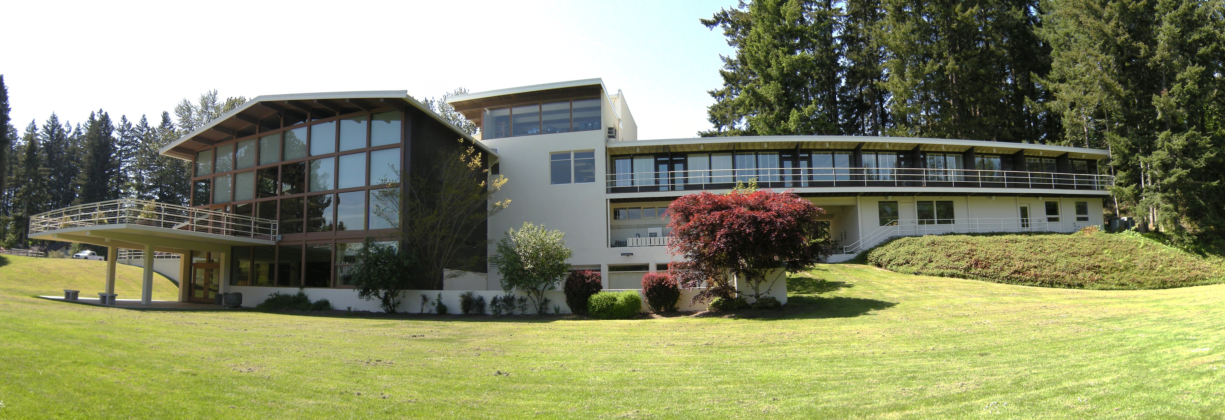 Panoramic view of Lake Wilderness Lodge, Maple Valley, Washington, USA. Former resort hotel, now a city recreation facility with its grounds turned into a park. Listed as a King County landmark. This image was created with Hugin Panorama created from four photos.